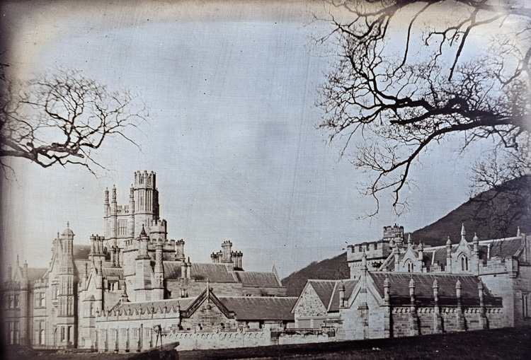 Photographer: Calvert Richard Jones (1802-1877) This whole-plate daguerreotype of Margam Castle taken by the Rev. Calvert Richard Jones on 9th March 1841, is the only daguerreotype by Calvert Jones known to have survived. Its early date and high quality make it a crucial image in the history of photography. For over a hundred years the photographer's work was neglected and only now is his genius gaining its just recognition. Date: 1841 Medium: Daguerreotype National Library of Wales: Reference: dcm00001 (PG00726) Record no.: 3354235